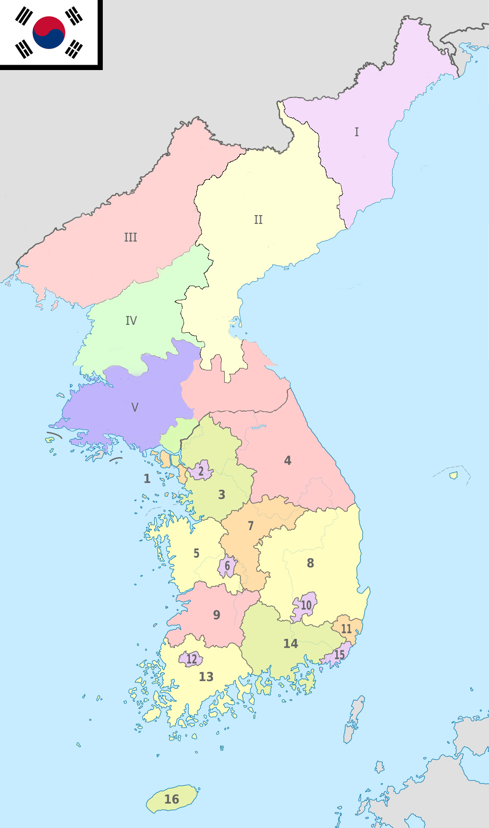 Map of the Republic of Korea, including Five Northern Provinces